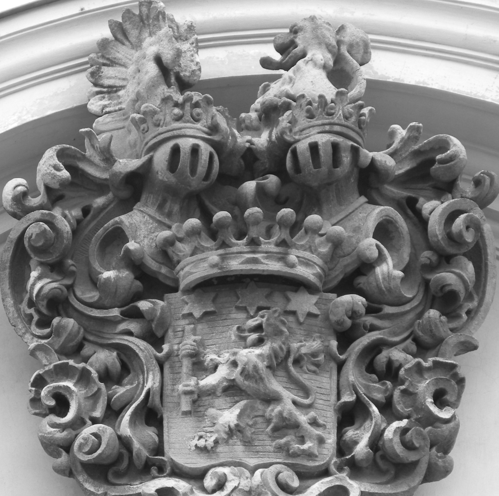 Coat of arms of József Hatvany-Deutsch (1858 - 1913). Tympanum of Erdődy Palace, Mihály Táncsics Street (Táncsics Mihály utca) No. 7, Budapest. For armorial deed (1910) see Libri regii vol. 72 p. 234